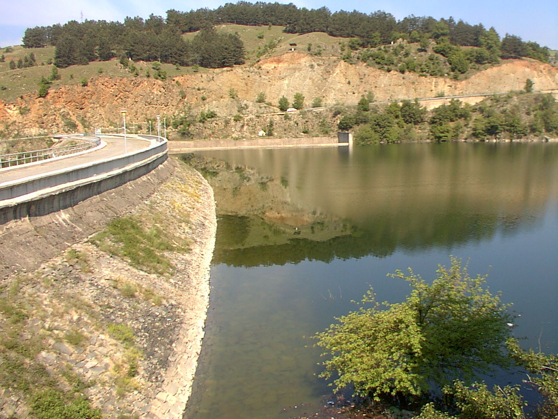 Kalimanci Lake, Republic of Macedonia